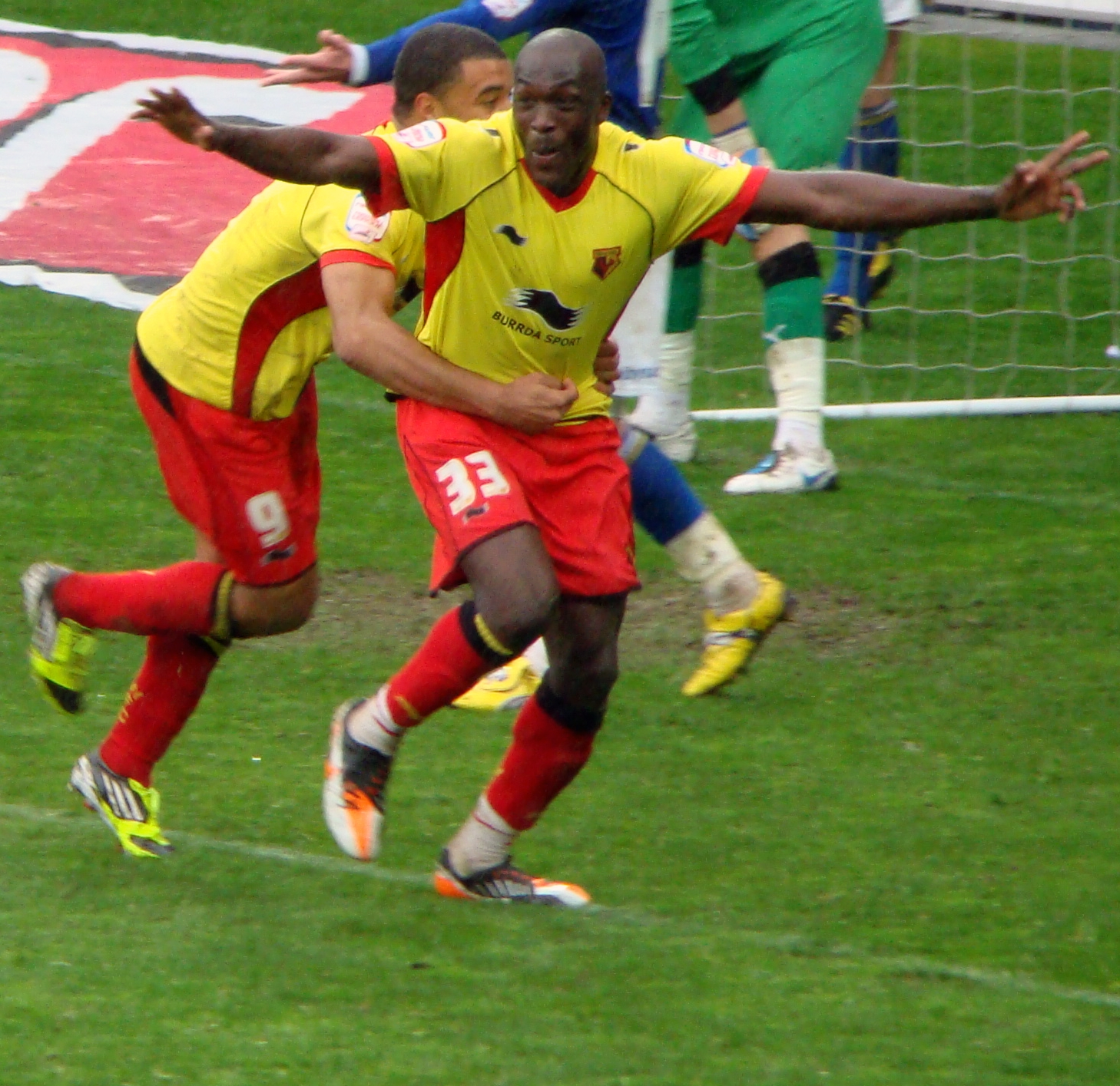 Nyron Nosworthy celebrating his goal for Watford against Cardiff City on 9 April 2012.